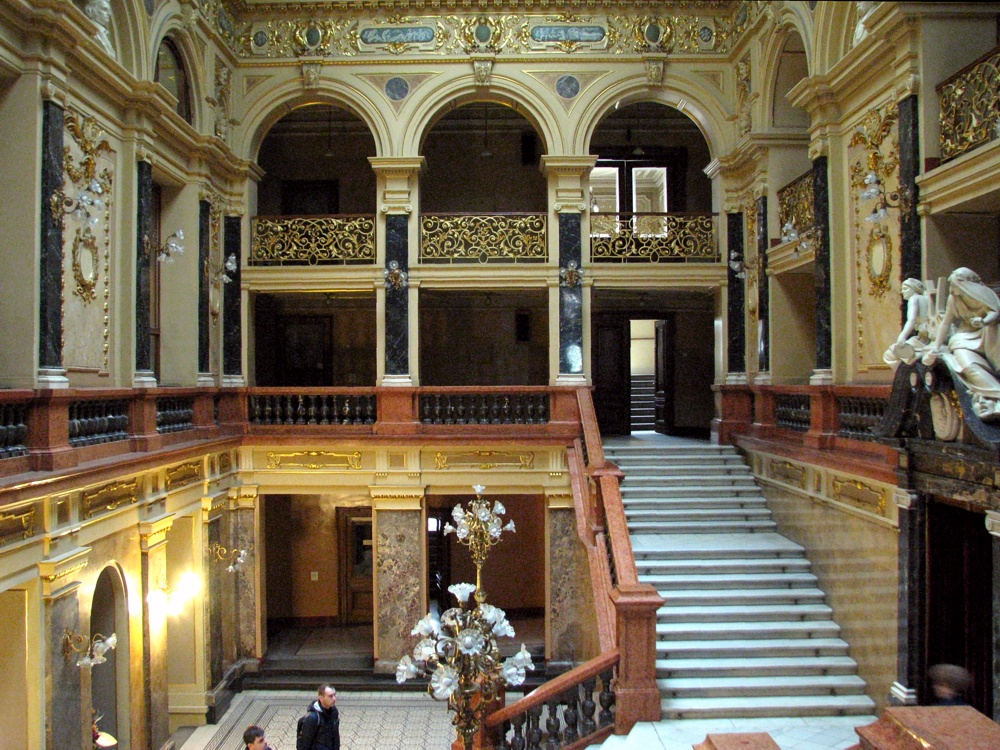 At the end of the 19th century, Lviv felt the need for a large city theatre. In 1895, the city announced an architectural competition for the best design, which attracted a large number of projects. An independent jury unhesitatingly chose the design by Zygmunt Gorgolewski, a graduate of the Berlin Building Academy and the Director of the Lwów higher art-industrial school. The Lviv Opera was opened on October 4, 1900. It was originally called the City Theater (Teatr Miejski) and later the Grand Theatre (Teatr Wielki) until it was renamed in 1939 by the Soviet occupiers for "The Lviv Theatre of Opera and Ballet". The building was erected in the classical tradition with using forms and details of Renaissance and Baroque architecture, also known as the Viennese neo-Renaissance style. The stucco mouldings and oil paintings on the walls and ceilings of the multi-tiered auditorium and foyer give it a richly festive appearance. The Opera's imposing facade is opulently decorated with numerous niches, Corinthian columns, pilasters, balustrades, cornices, statues, reliefs and stucco garlands. Standing in niches on either side of the main entrance are allegorical figures representing Comedy and Tragedy sculpted by Antoni Popiel and Tadeusz Baroncz; figures of muses embellish the top of the cornice. The theatre, beautifully decorated inside and outside, became a centrefold of the achievements in sculpture and painting of Western Europe at the end of the 19th century. The internal decoration was prepared by some of the most renowned Polish artists of the time. Among them were Stanisław Wójcik (allegorical sculptures of Poetry, Music, Fame, Fortune, Comedy and Tragedy), Julian Markowski, Tadeusz Wiśniowiecki, Tadeusz Barącz, Piotr Wojtowicz (relief depicting the coat of arms of Lviv), Juliusz Bełtowski (bas-relief of Gorgolewski) and Antoni Popiel (sculptures of Muses decorating the façade). The main curtain was decorated by Henryk Siemiradzki.